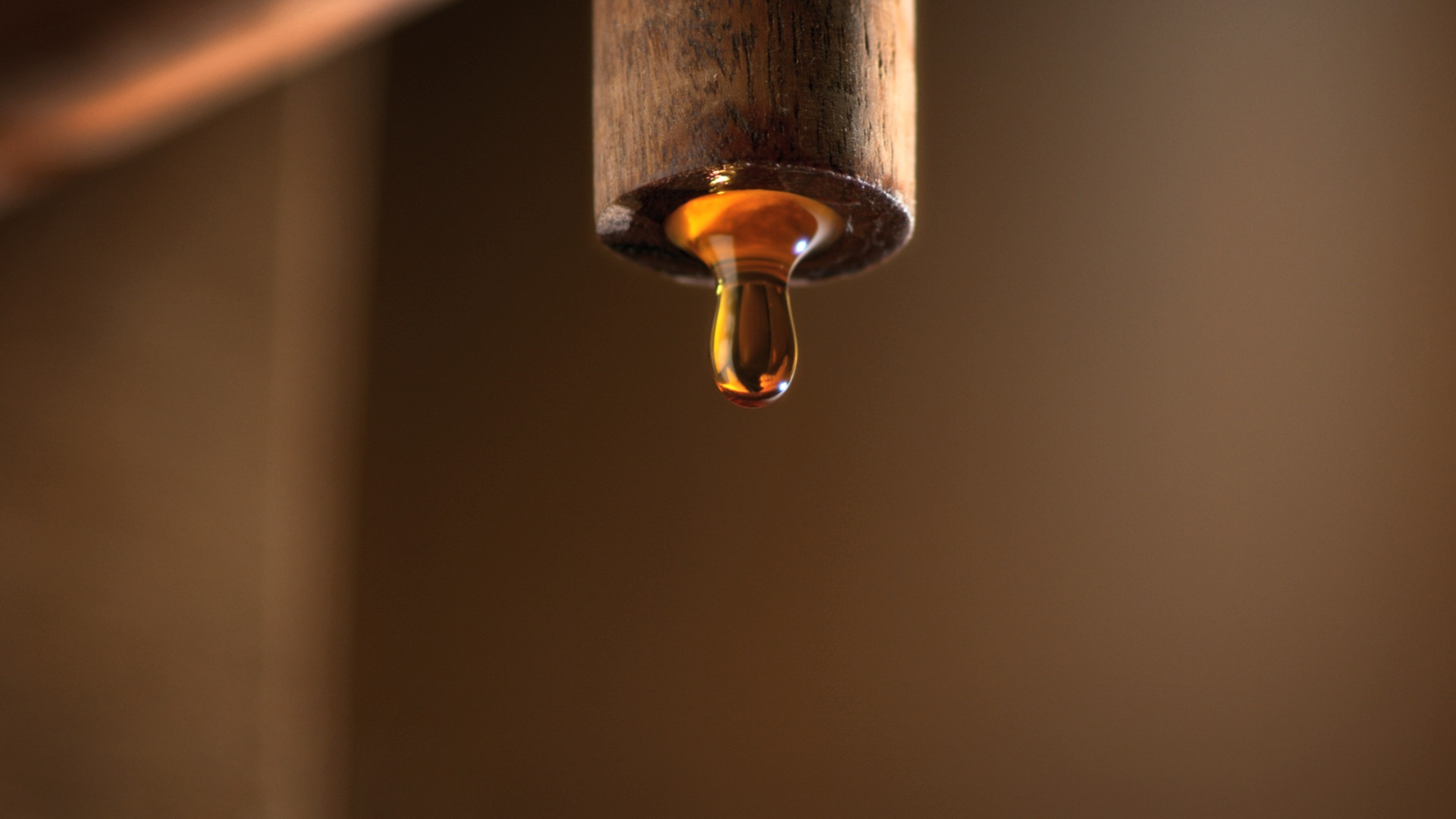 Fish sauce